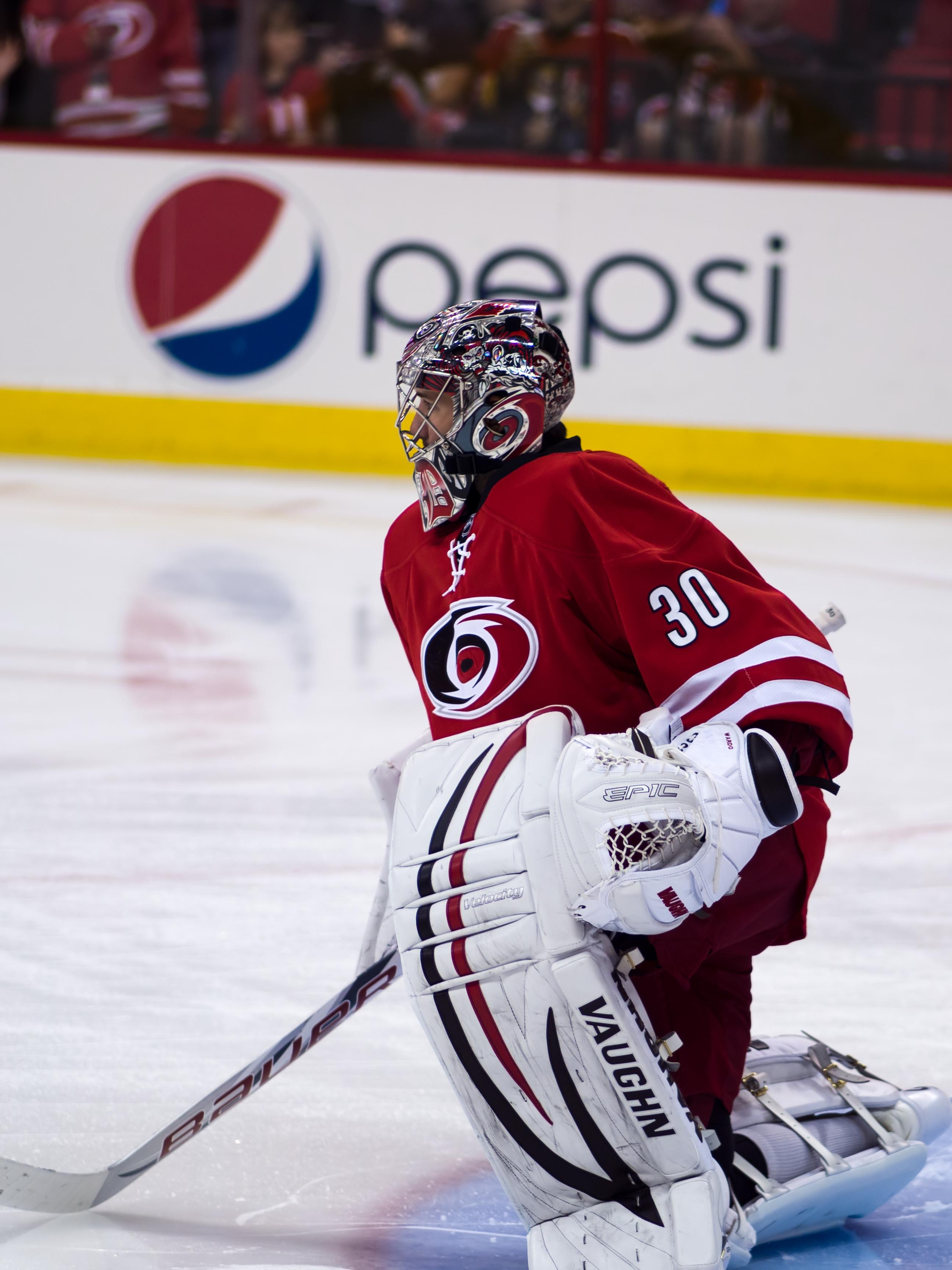 Cam Ward, Canadian ice hockey goaltender